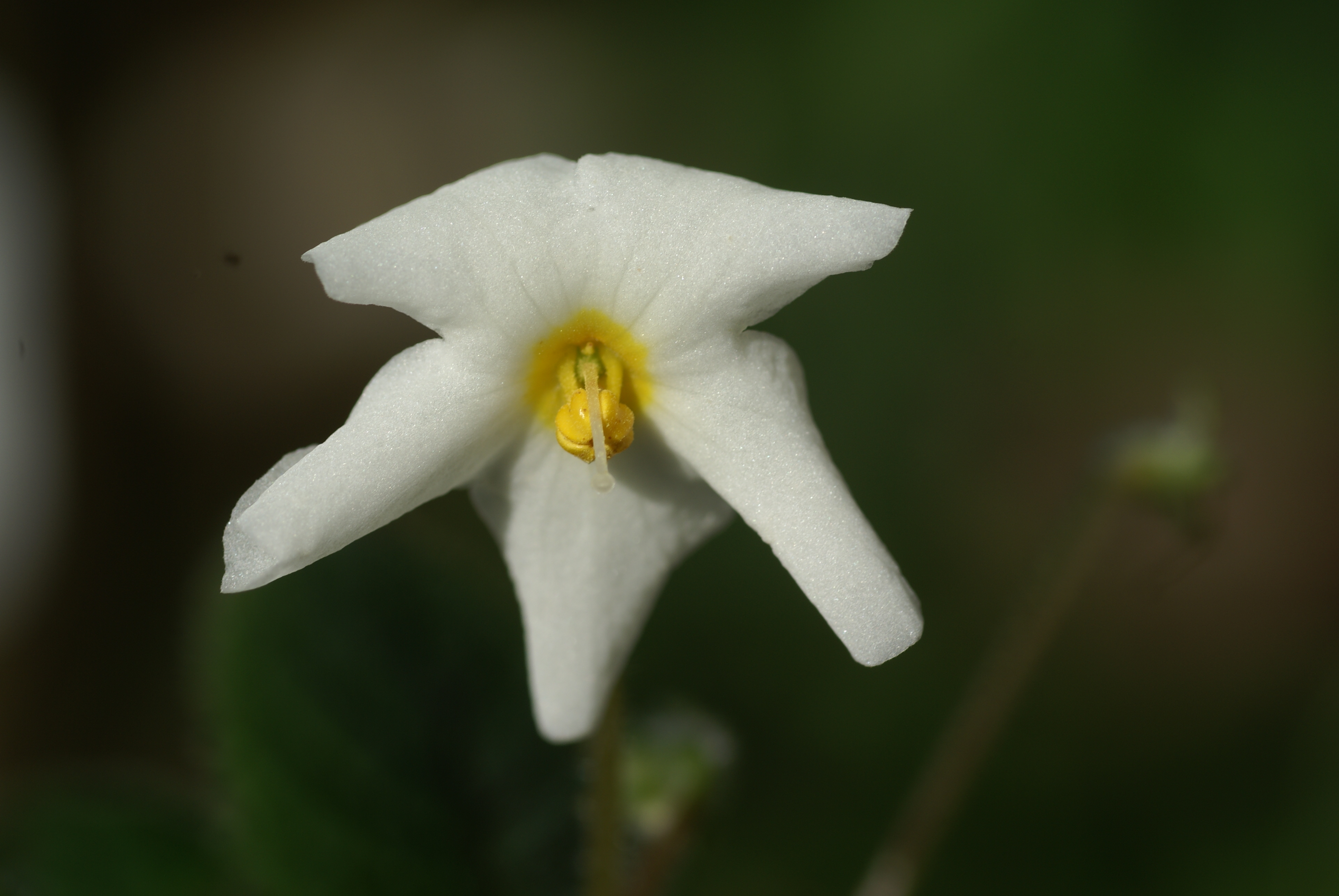 Plant species Niphaea oblonga in botanical garden in Helsinki city, Finland